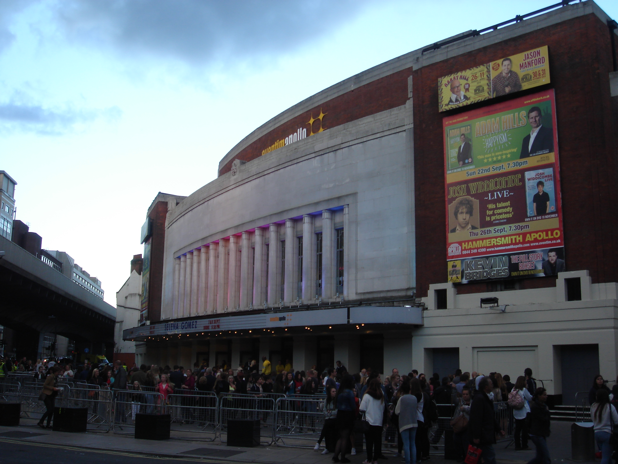 Hammersmith Apollo (formerly Odeon), London